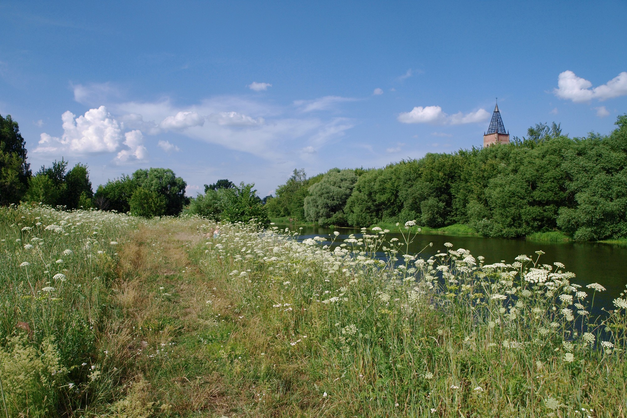 Pavlovsky Posad, Moscow Oblast, Russia. View across the Klyazma River, to the village of Gorodok and Gorodok weaving mill. Old factory water tower with a spiked top.